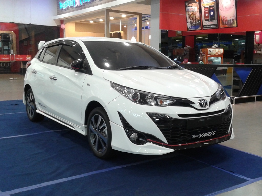 2018 Toyota Yaris 1.5 TRD Sportivo (NSP151R-CHXVKD), photo was taken in West Jakarta, Indonesia.